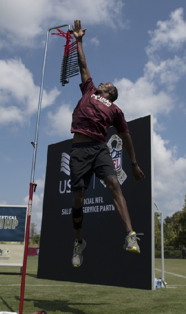 This is an image cropped by me but originally taken by 'Airman 1st Class Monica Roybal'. The original image is public domain and can be found at: The text caption to the original image reads: 'U.S. Air Force Airman Collins Ombikhwa, 633rd Medical Group mental health technician, measures his vertical jump during USAA’s Salute to Service NFL Boot Camp event at the Bon Secours Washington Redskins Training Center, Richmond, Virginia, Aug. 6, 2019. The competitors rotated through various obstacles to compete in drills similar to those used by National Football League coaches to evaluate talent. (U.S. Air Force photo by Airman 1st Class Monica Roybal)'